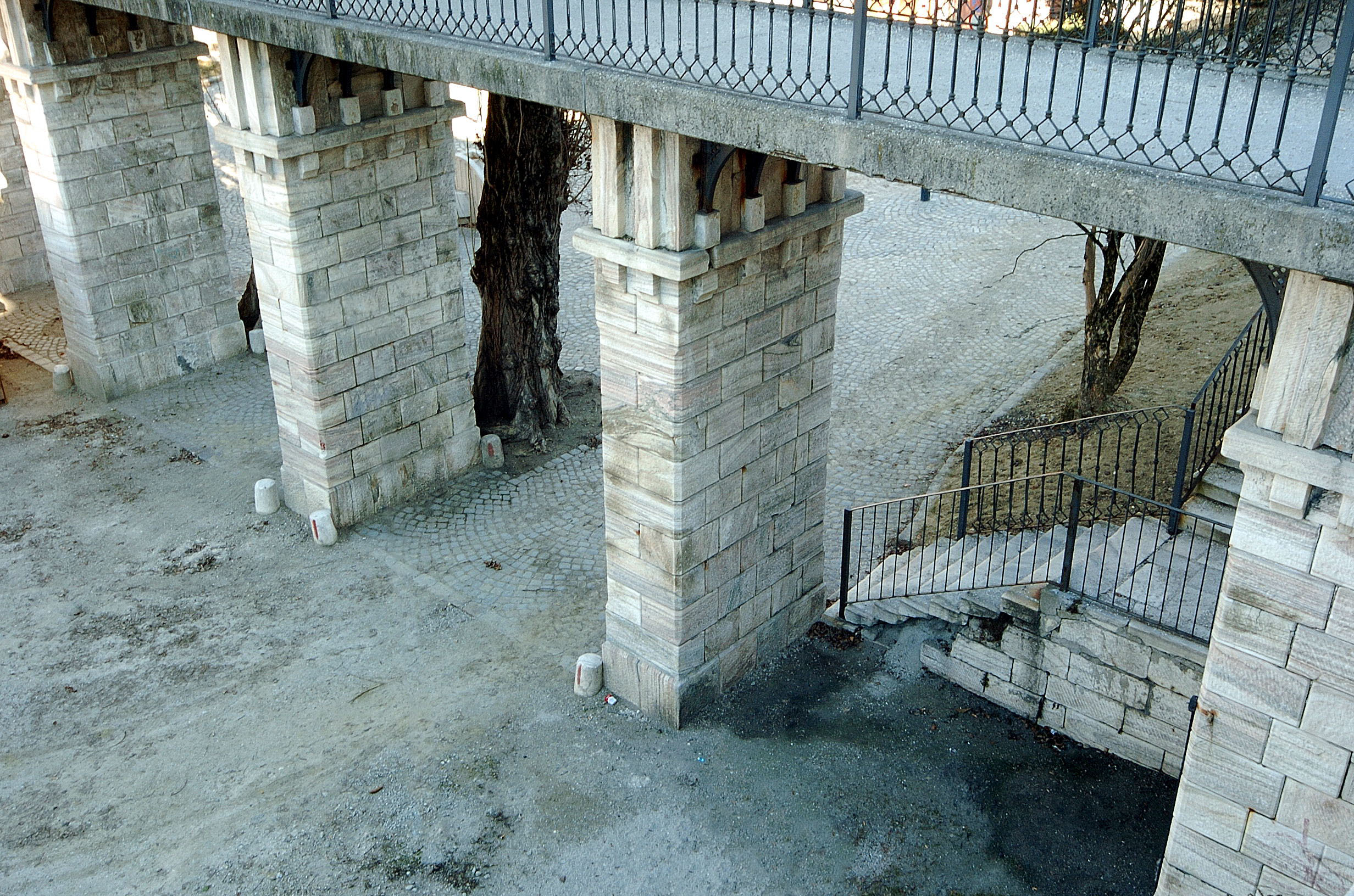 Elisabeth bridge, built from Töschling marble by Domenico Venchiarutti in 1855-56, across the Lendhafen, 8th district “Villacher Vorstadt”, Klagenfurt on the Lake Woerth, Carinthia, Austria, EU